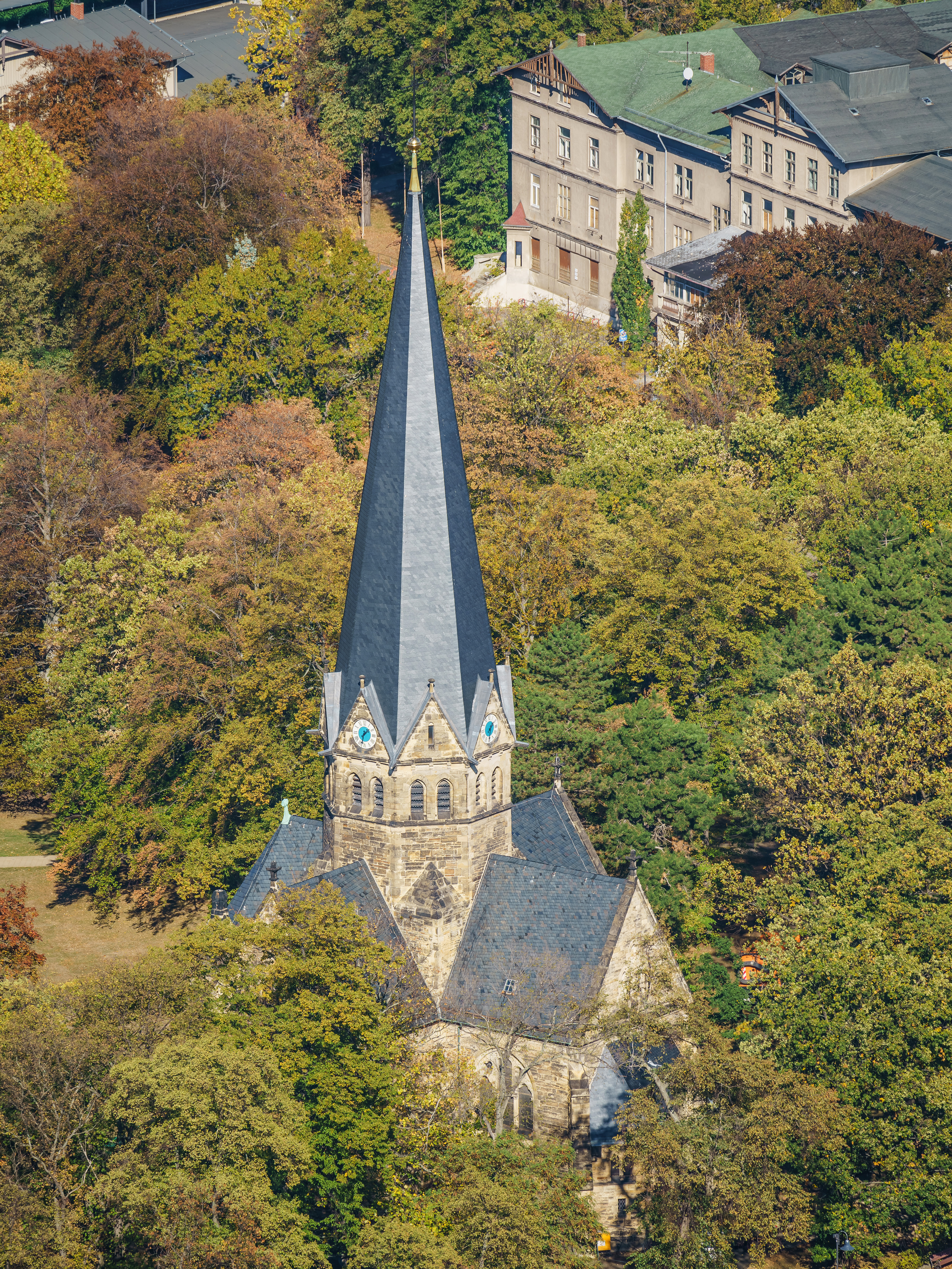 View from Witches' Point in Thale, Germany